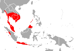 Acuminate Horseshoe Bat (Rhinolophus acuminatus) range